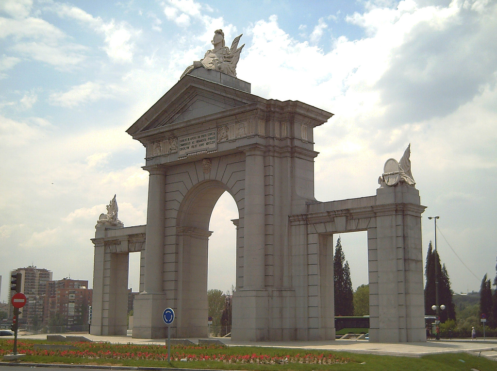 Puerta de San Vicente ("Gate of St. Vincent"), at the Glorieta de San Vicente (a roundabout) in Madrid (Spain). Projected by architect Francesco Sabatini (1722–1797) and built between 1770 and 1775. Dismantled in 1892 and rebuilt from 1994 to 1995.